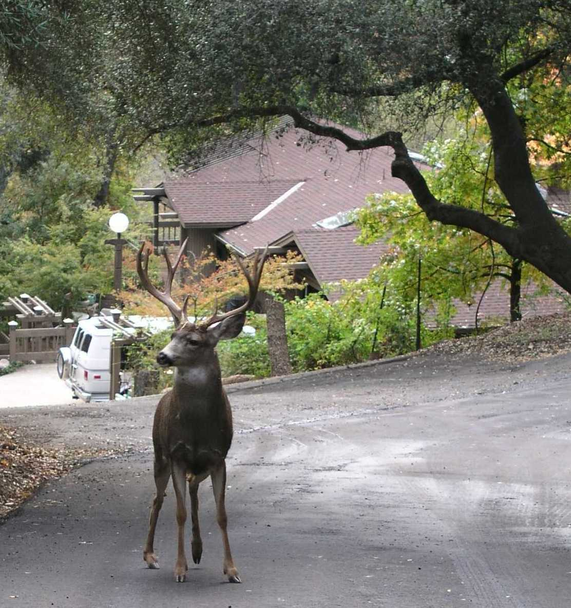 Odocoileus hemionus californicus - A buck in the Fall 2005